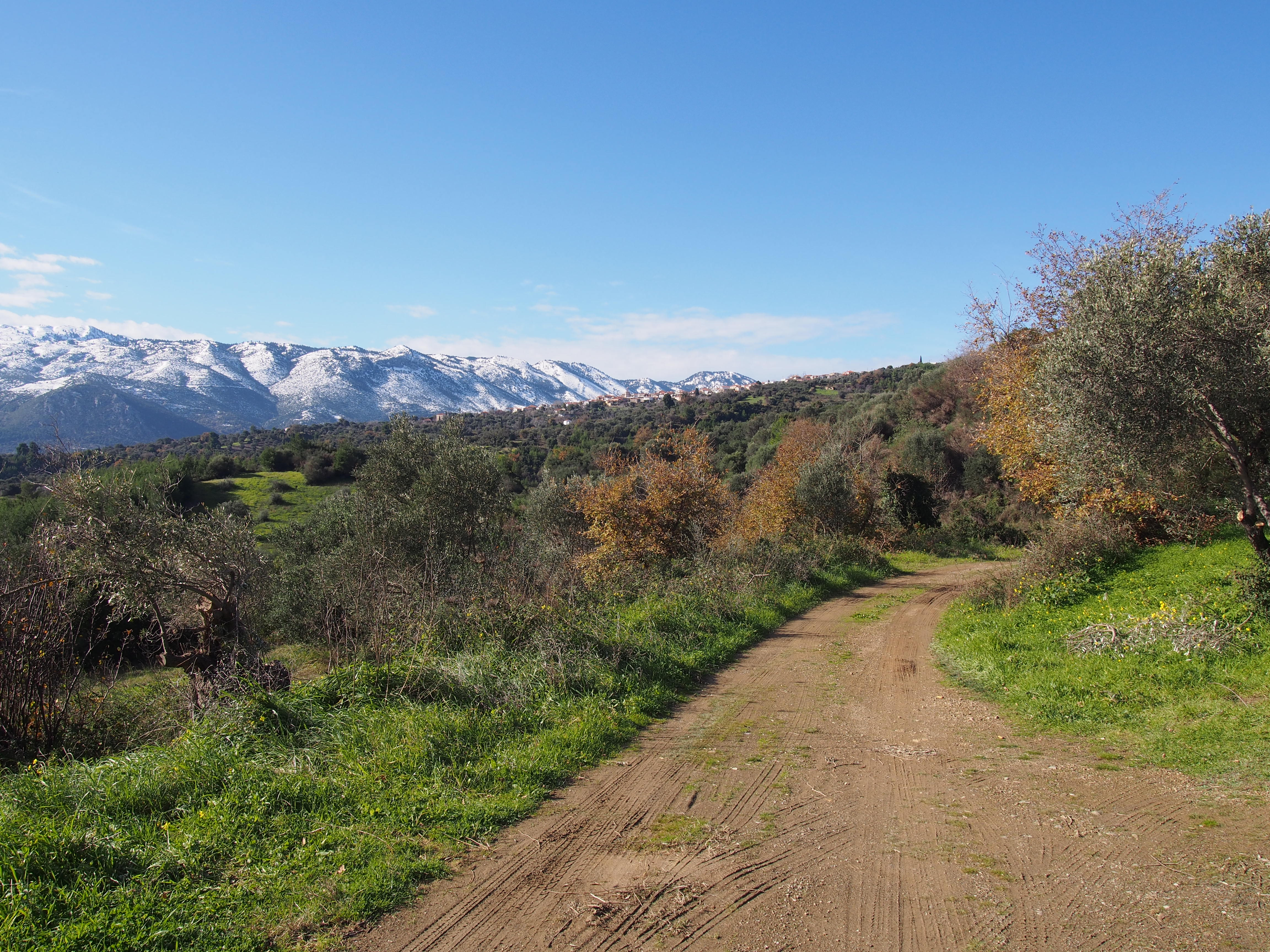 A dirty road, now serving, according to the municipality, as a bicycle way. The path was designed and used as a railway to connect the lignite mines inland (near Pyrgos) with the sea port of Kymi. The carts where pulled along the railway until the reached the end of it and the lignite was loaded on aerial carts and then down to the port. So it was nearly no leaning. In this photo is visible the village Kalimeriani and the snow-capped Kotylaia mountains.